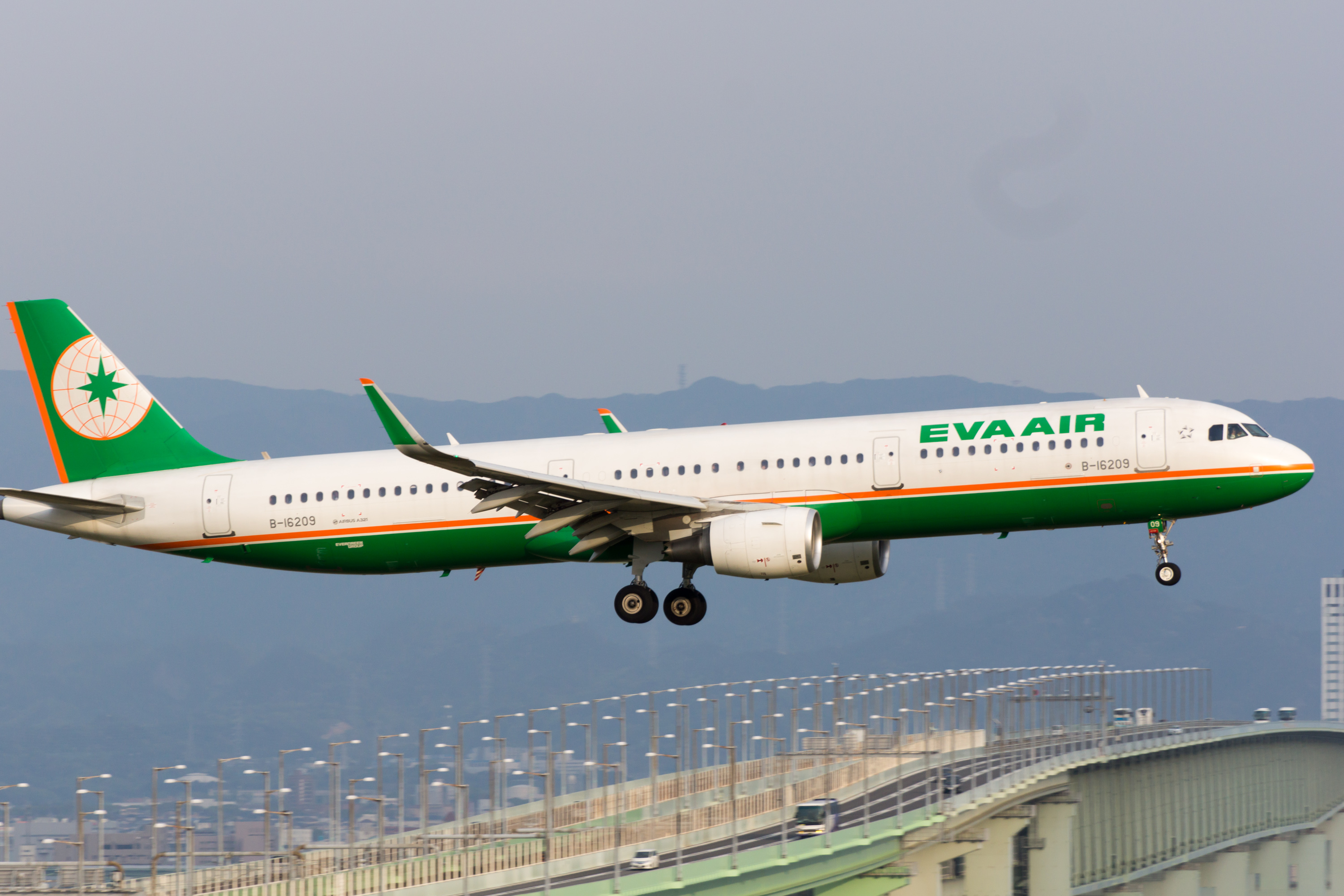 Eva Airways Airbus A321-211